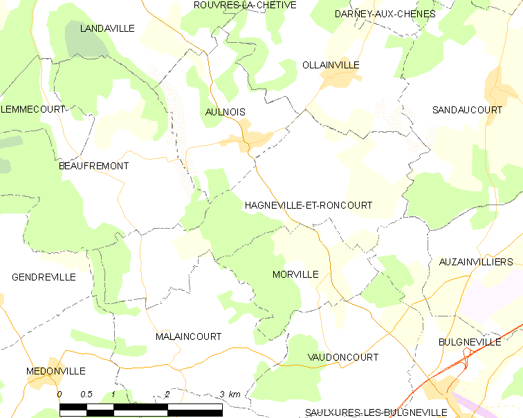 Map of French municipality Hagnéville-et-Roncourt